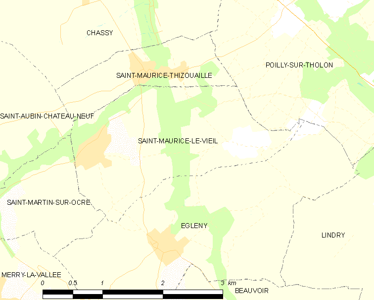 Map of French municipality Saint-Maurice-le-Vieil